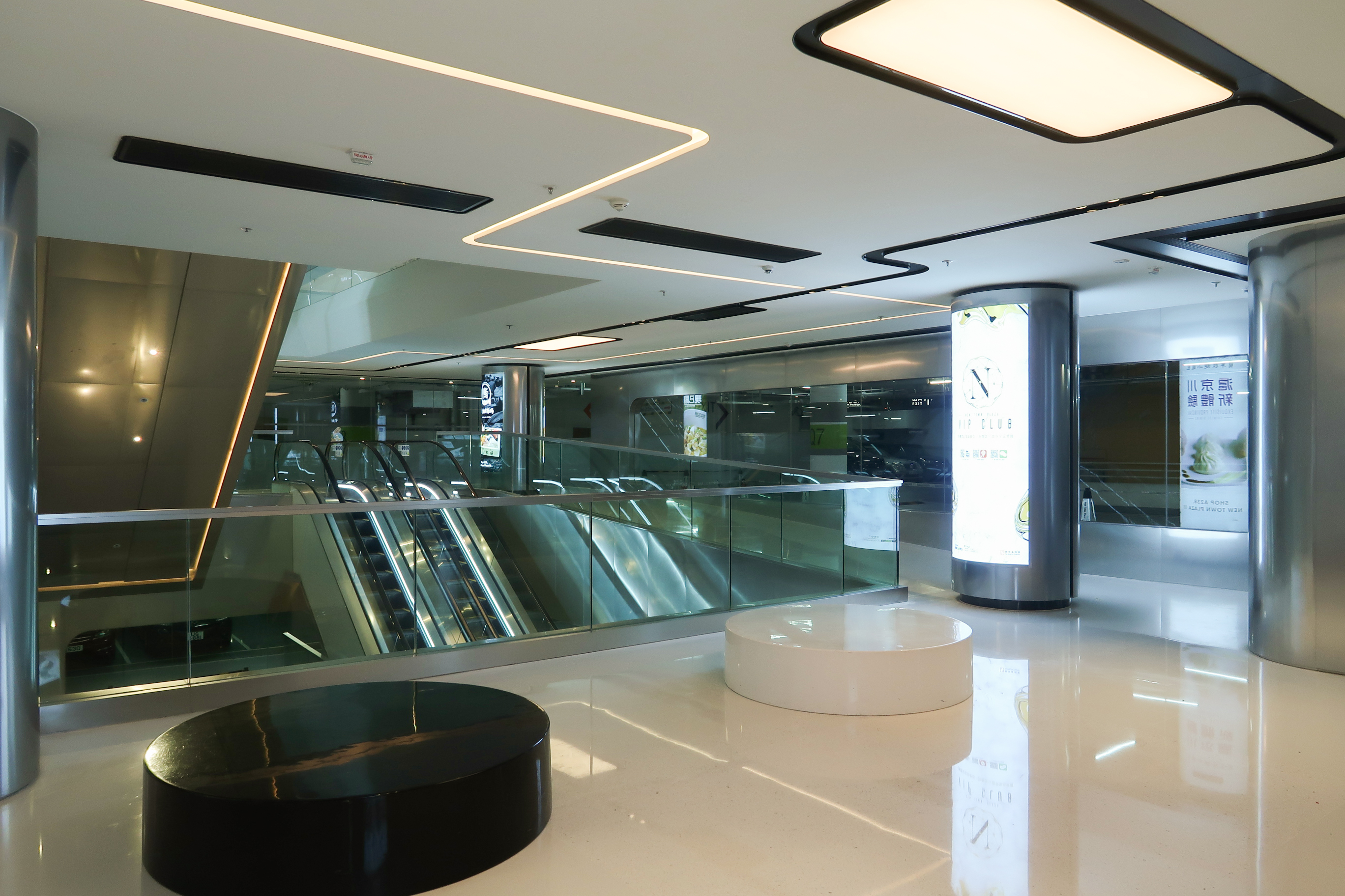 New Town Plaza Phase 3 UB New Carpark Lobby